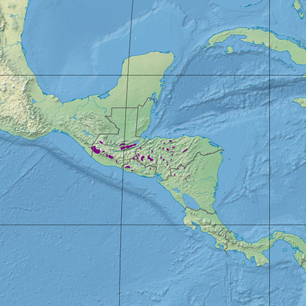 Ecoregion NT0112 - Central American montane forests (in purple)